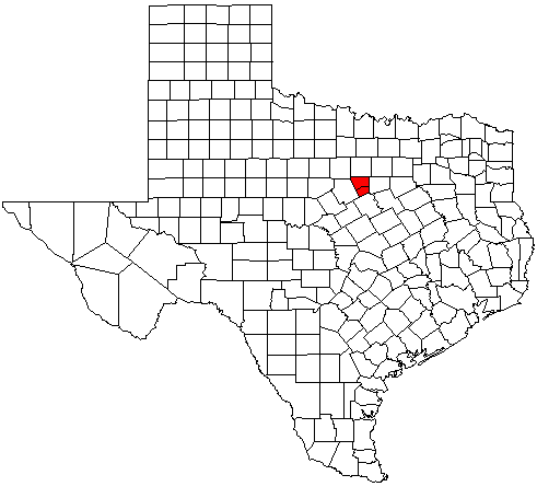 Map of Texas highlighting the Granbury Micropolitan Statistical Area; created with the GIMP. Made by User:Acntx.